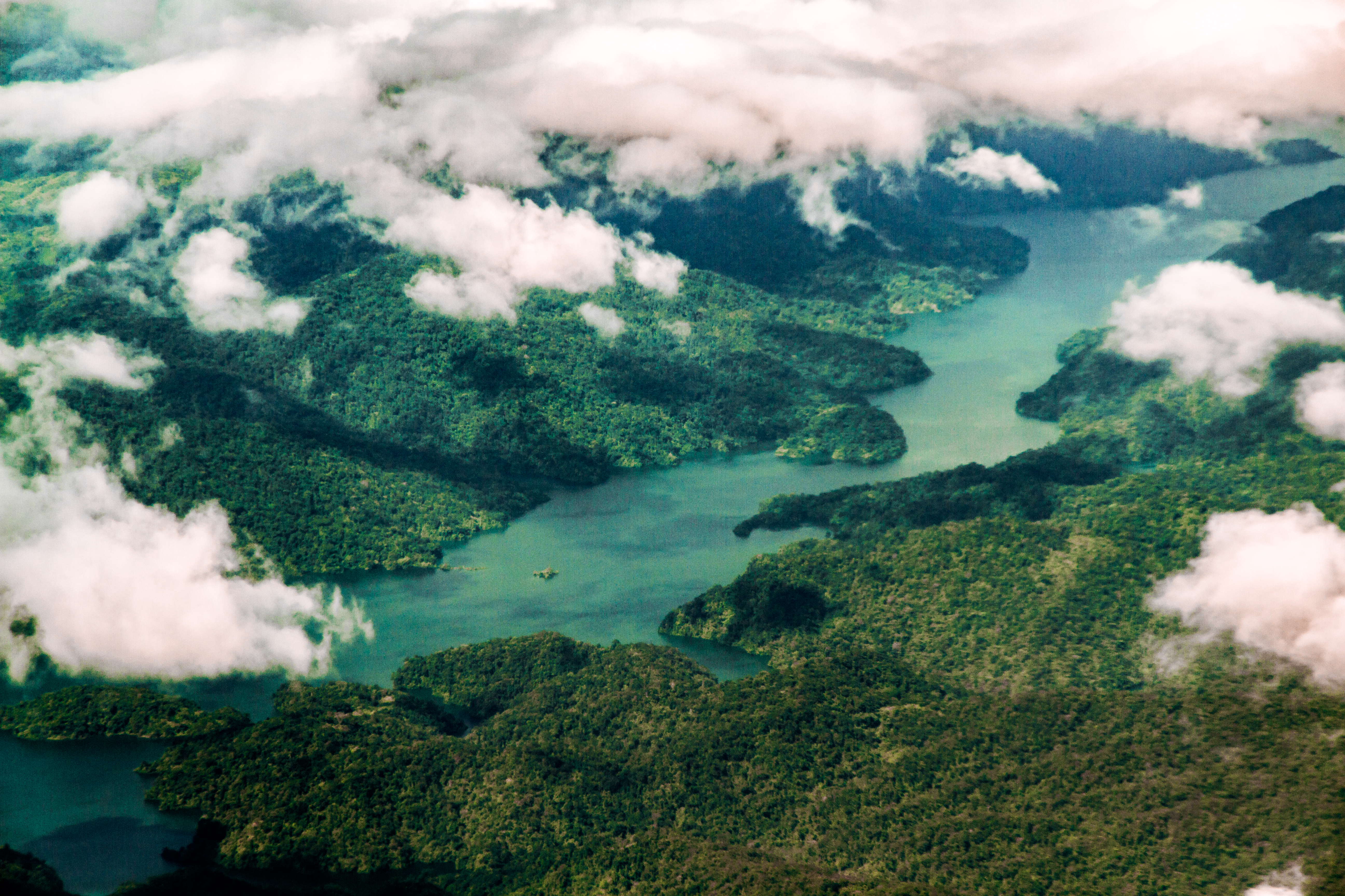 Photo of a portion of Angat lake at the Angat Watershed Forest Reserve, Bulacan, Philippines. The view seen is south of the artificial lake, just before the Angat Dam (not in view).